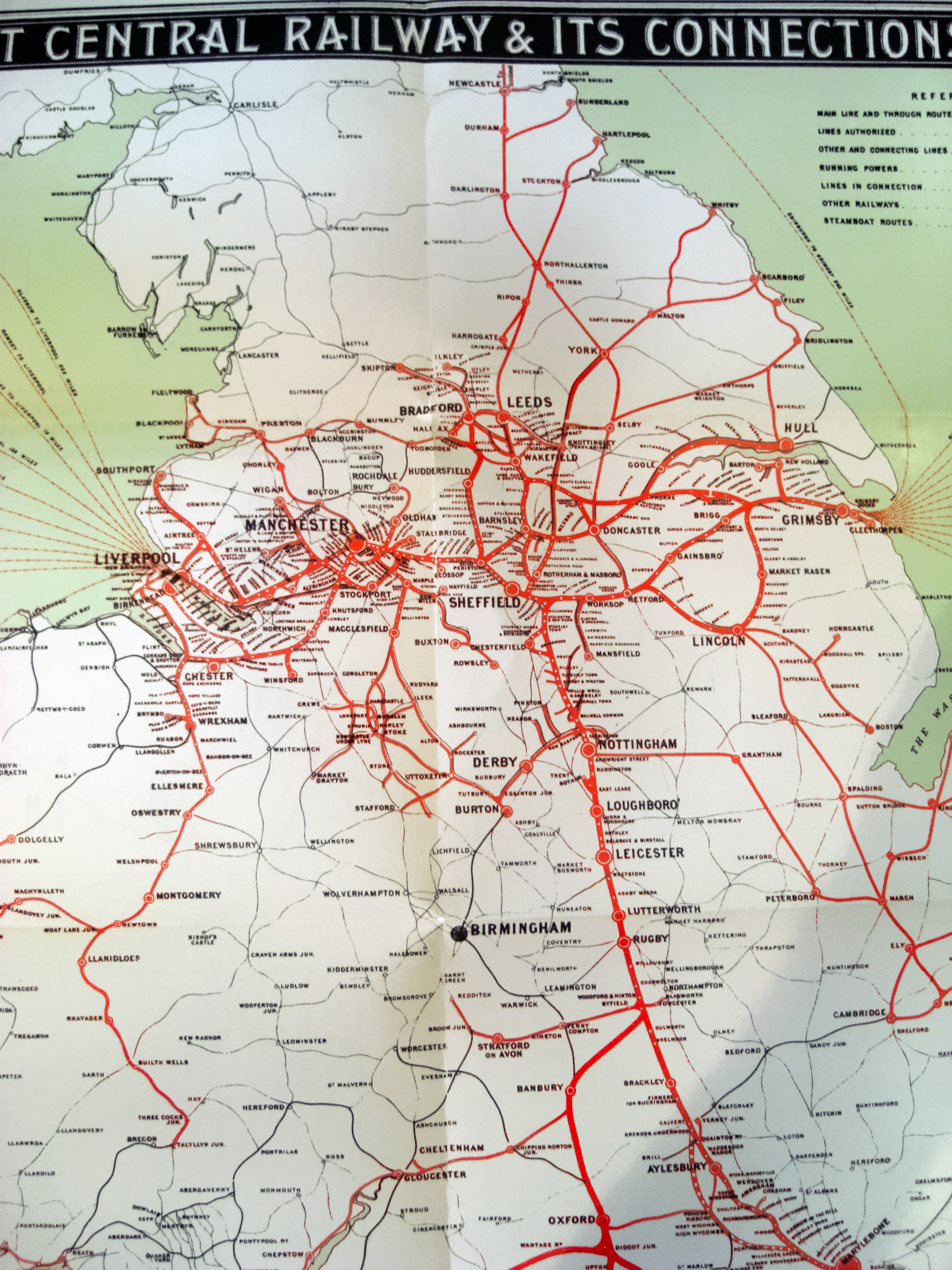 The Great Central Railway network, 1903. Includes 'London Extension' and the 'Aylesbury Bypass' lines. Photograph of network map from the July 1903 GCR national timetable. Original document is out-of-copyright.